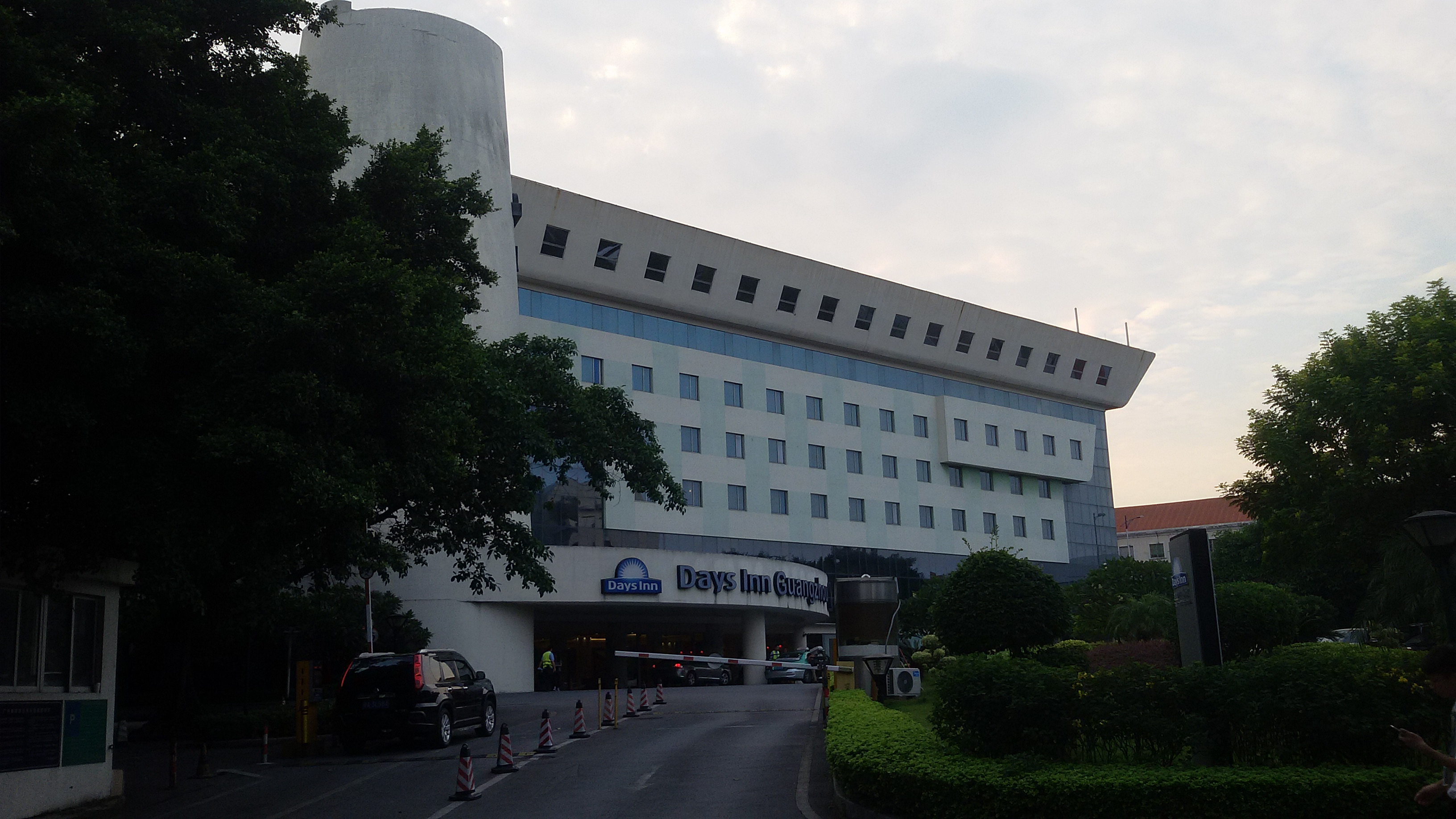 Days Inn Guangzhou Hotel 粵語: 廣州戴斯酒店